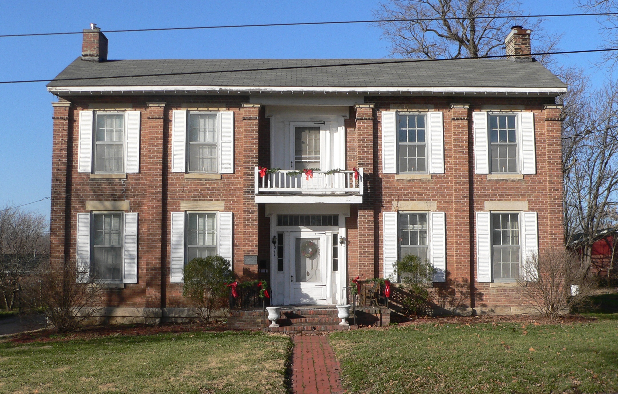 Dr. George M. Willing house, located at 211 Jefferson Street in Fulton, Missouri; seen from the east.